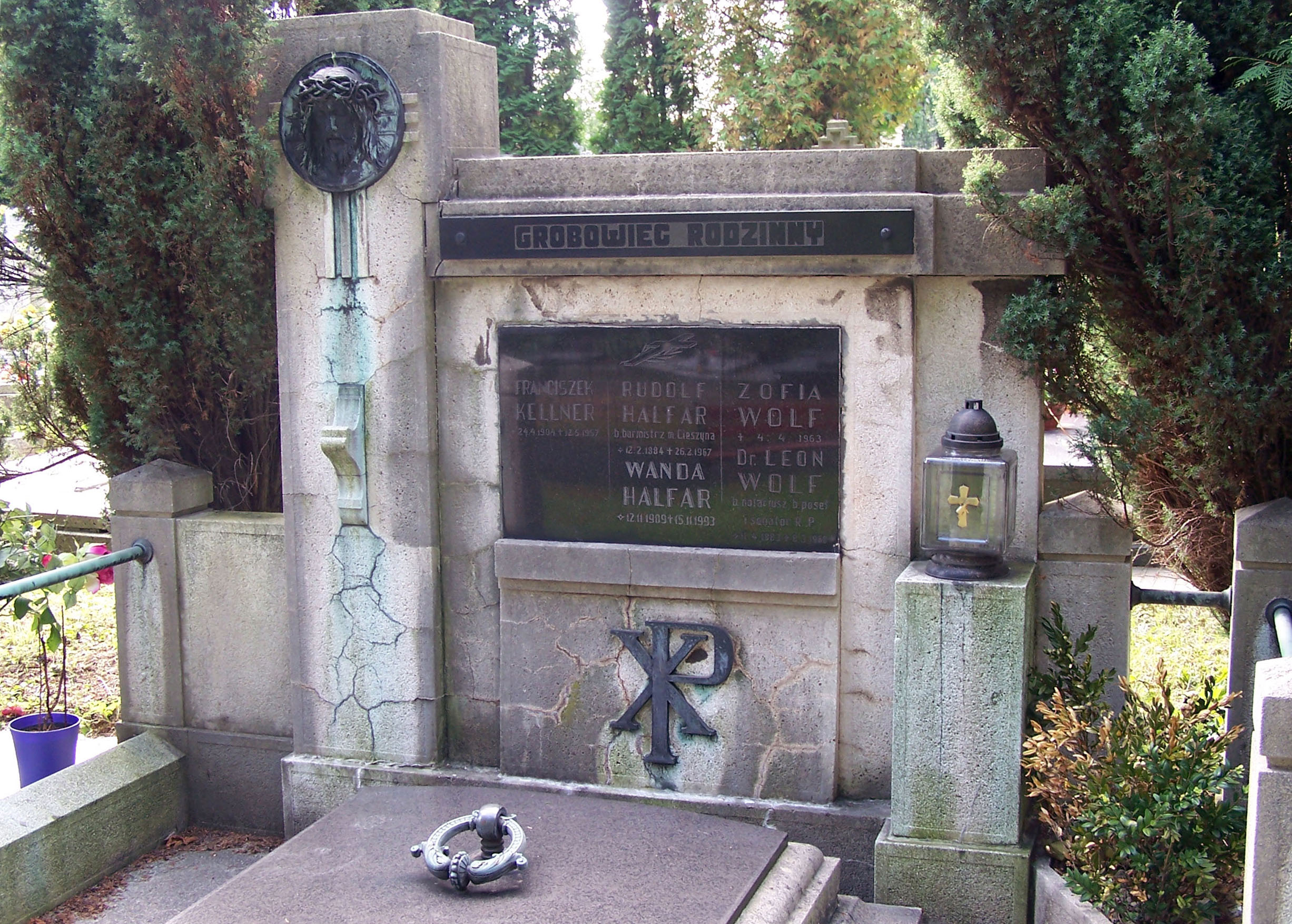 Grave of Rudolf Halfar and Leon Wolf at the Communal Cemetery in Cieszyn, Poland